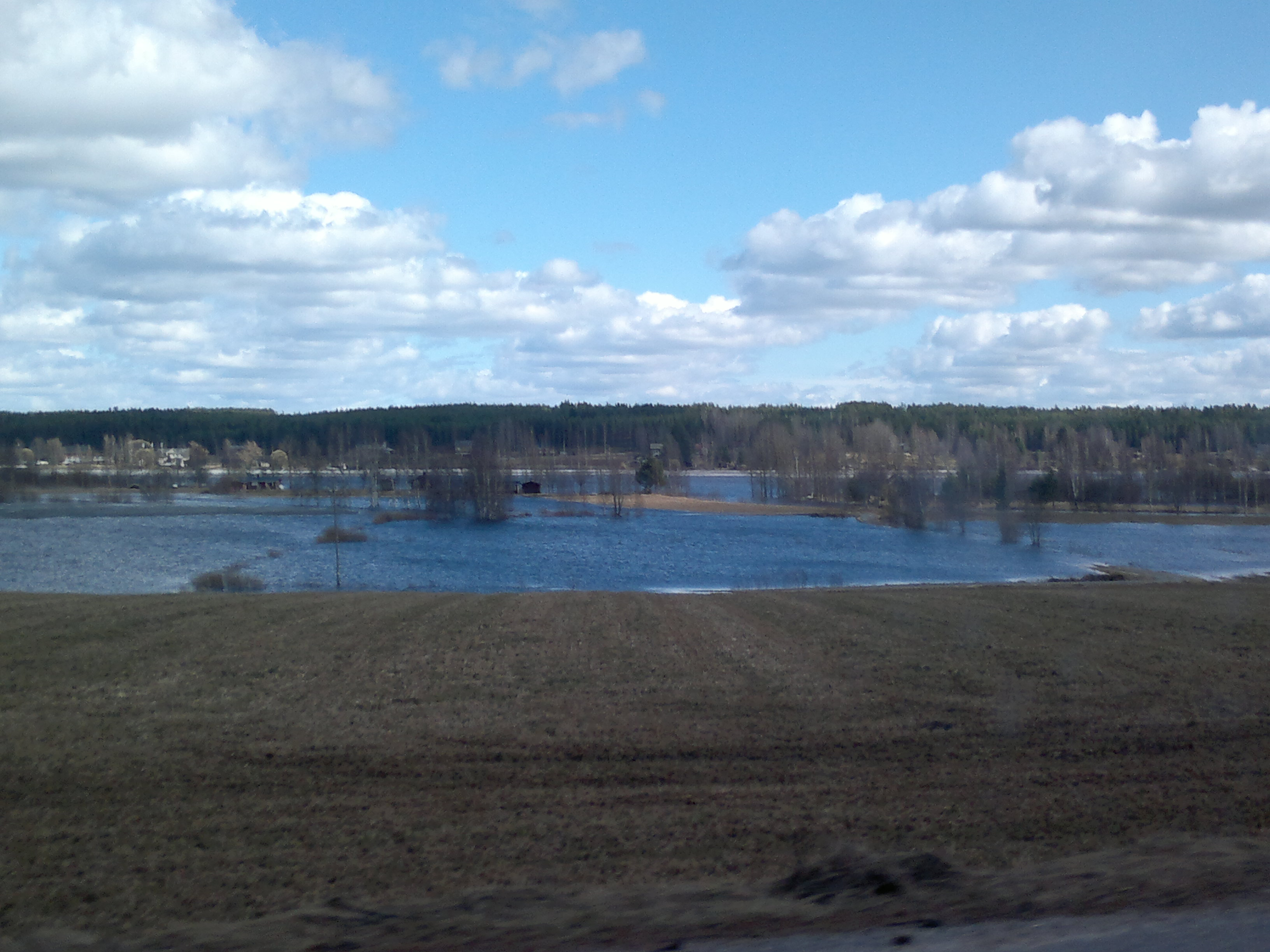 Spring flood in Kuortane, Finland in April 2013.